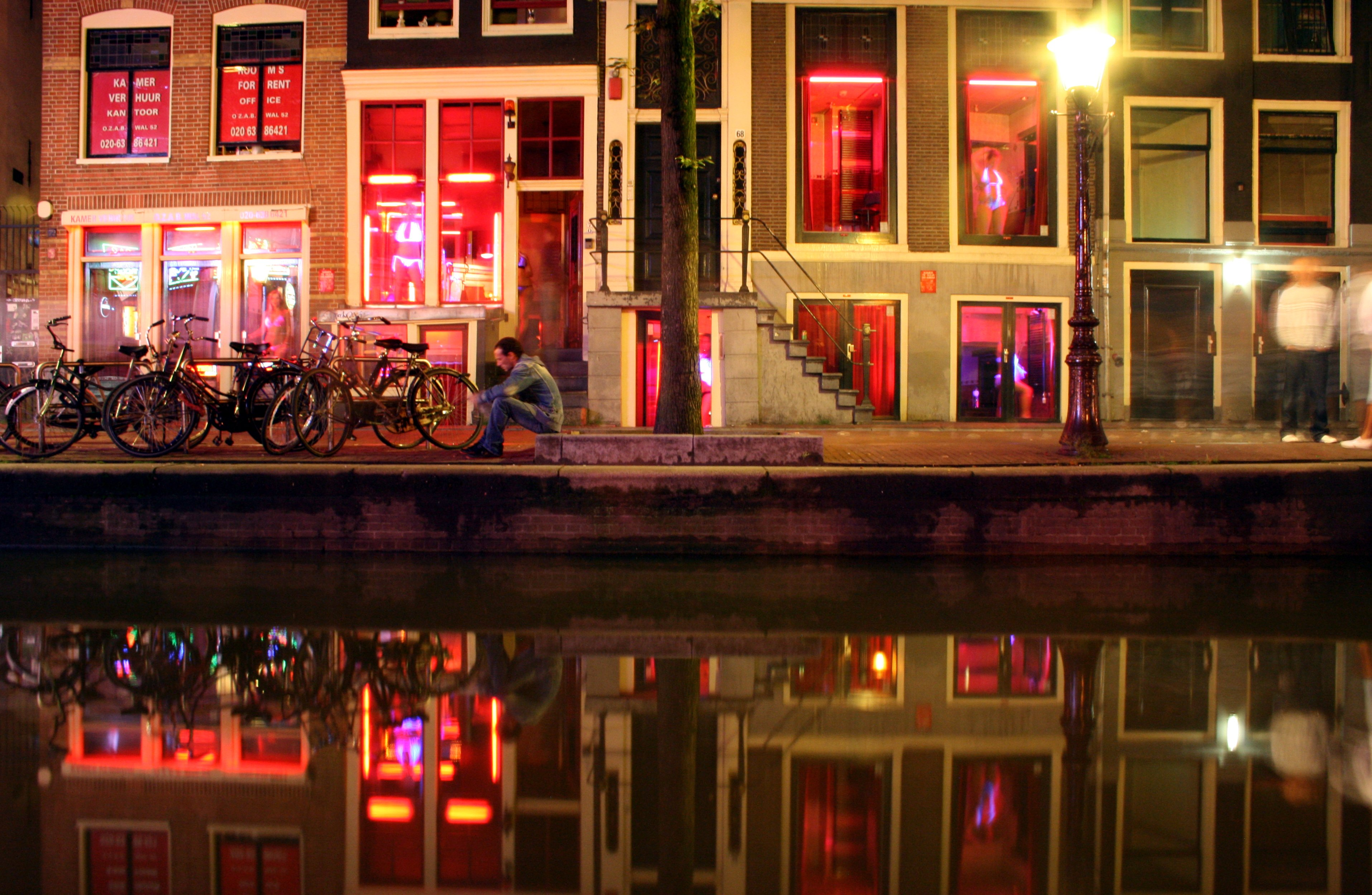 A few buildings along the main canal in Amsterdam's red light district. Best seen in the original size, you can actually see 6 girls here and a guy negotiating with one of them.